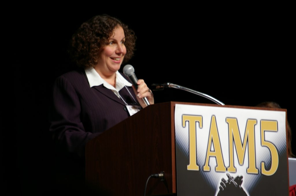 Lori Lipman Brown speaking at The Amazing Meeting 5.